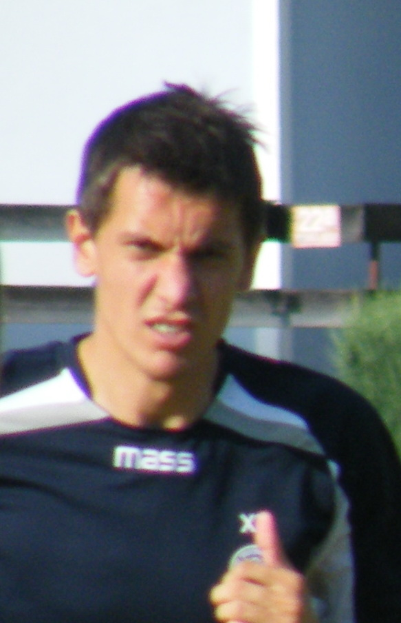 Safet Jahič Slovenian association football player.